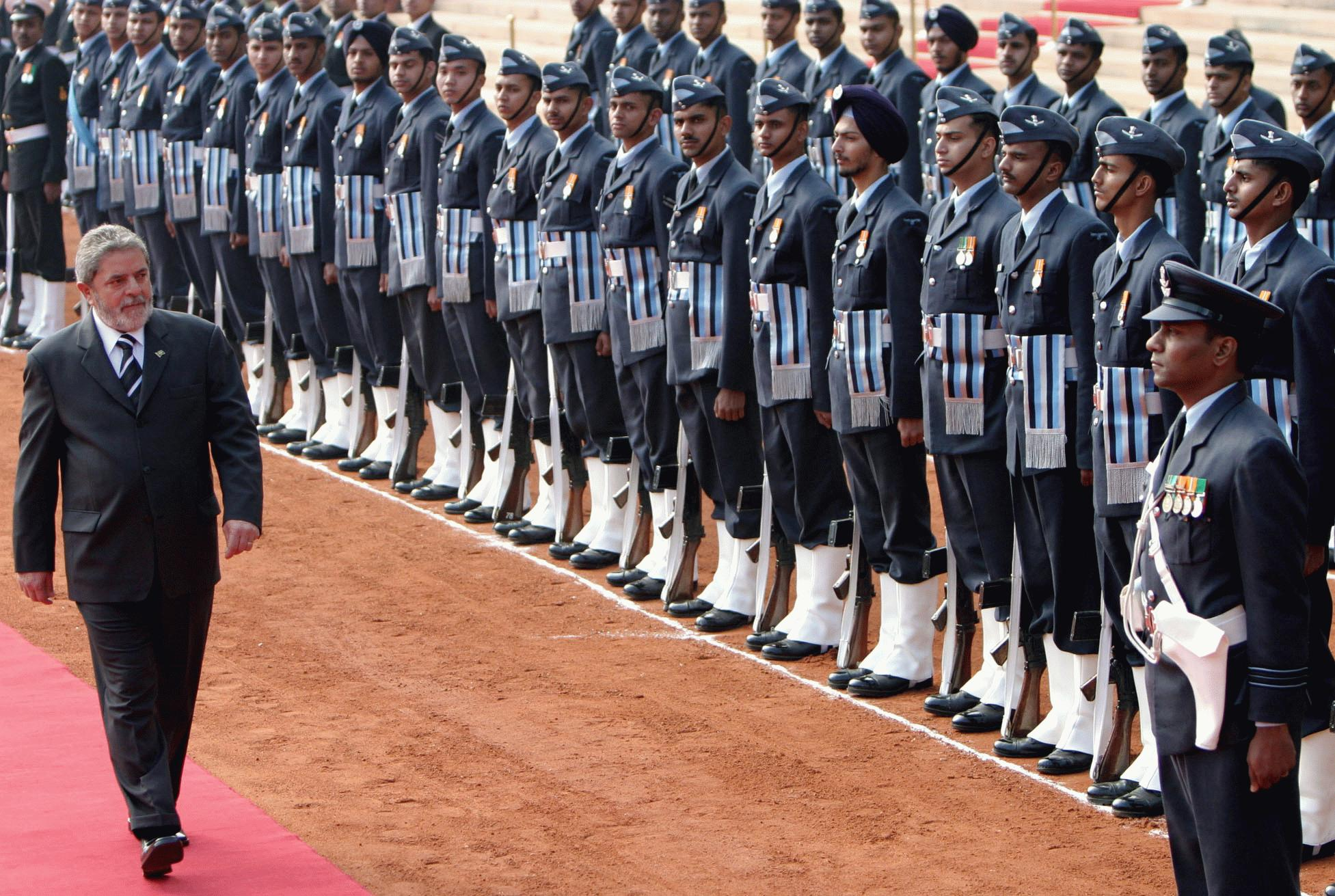 President of Brazil Luiz Inácio Lula da Silva inspecting an Indian Air Force honor guard at the Rashtrapati Bhavan, the presidential palace in New Delhi, India.